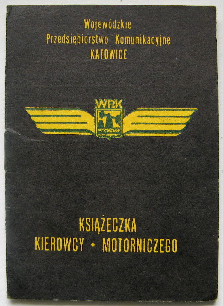 Driverbook of Voivodship Communications Enterprise in Katowice